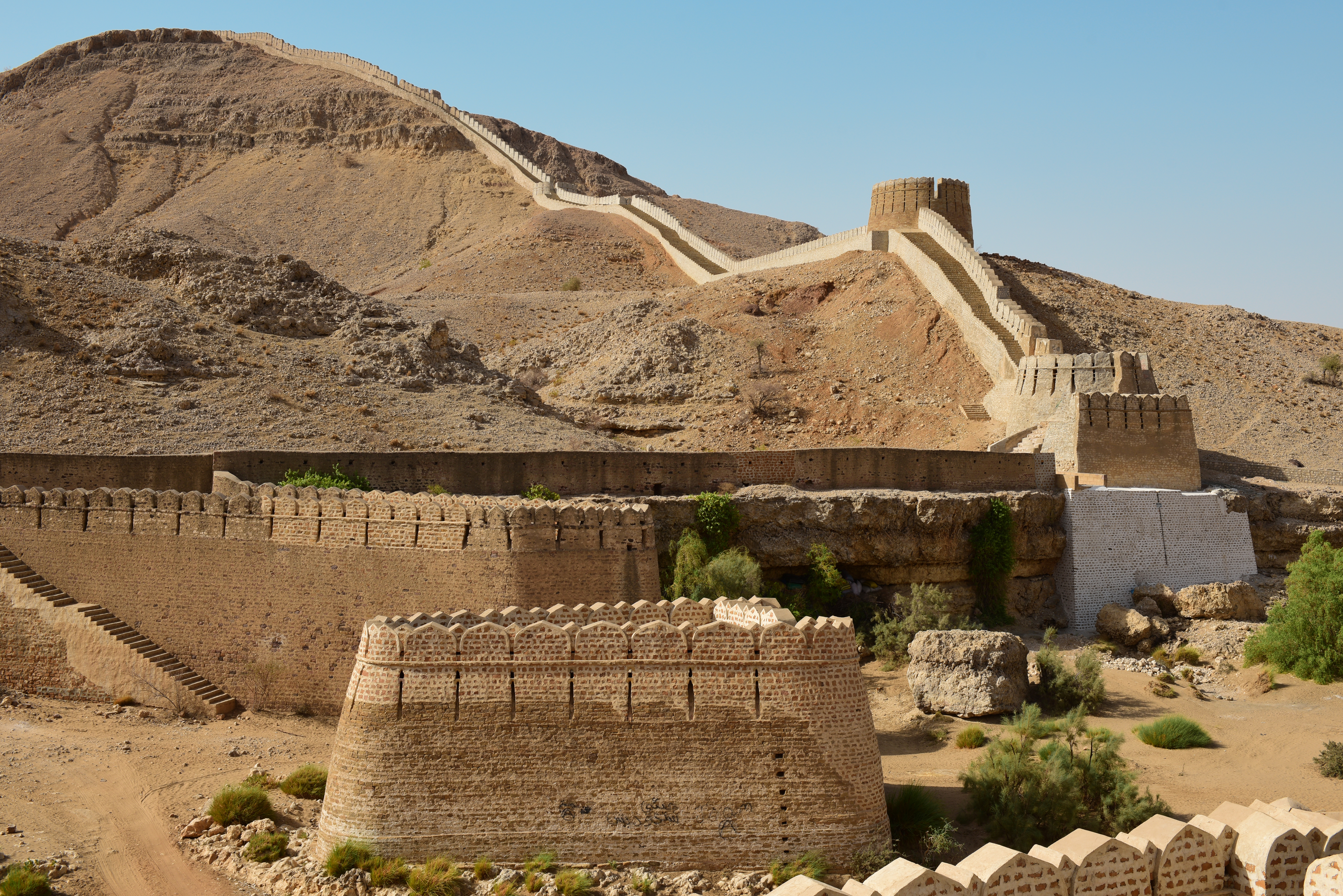 Ranikot Fort - The Great Wall of Sindh